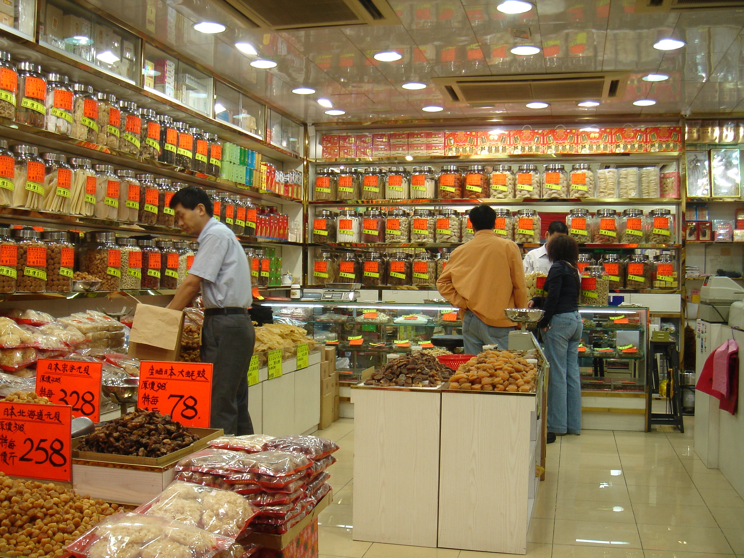 Traditional Chinese medicine shop in Tsim Sha Tsui, Kowloon, Hong Kong.